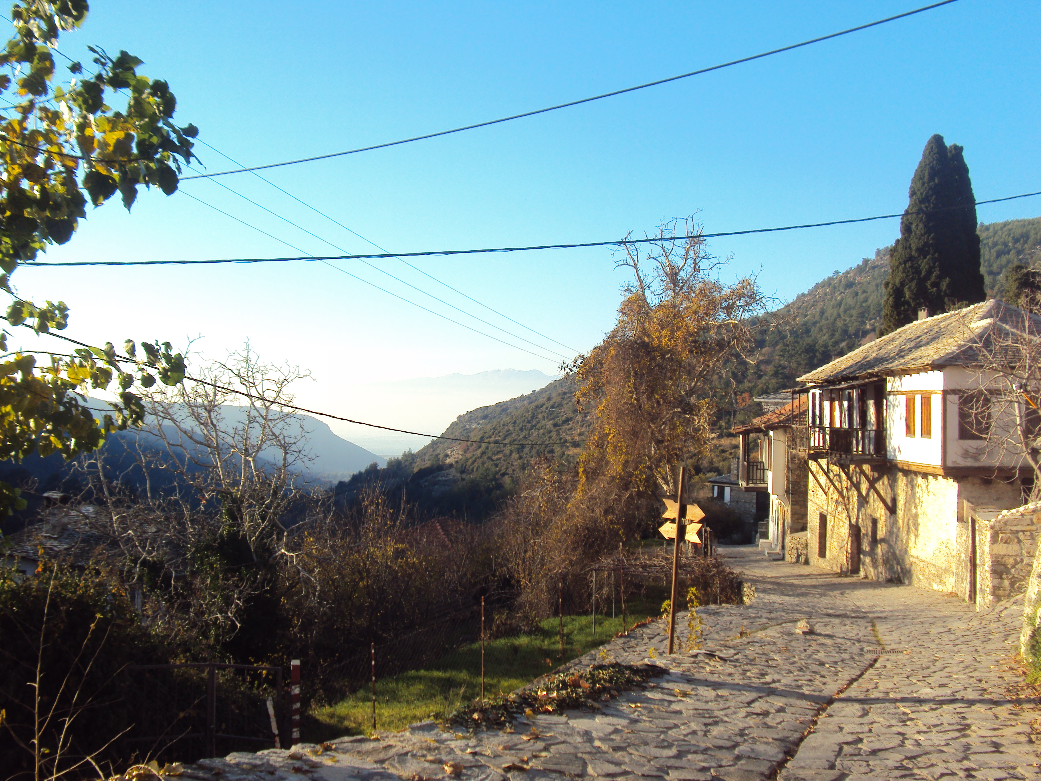 on the way down